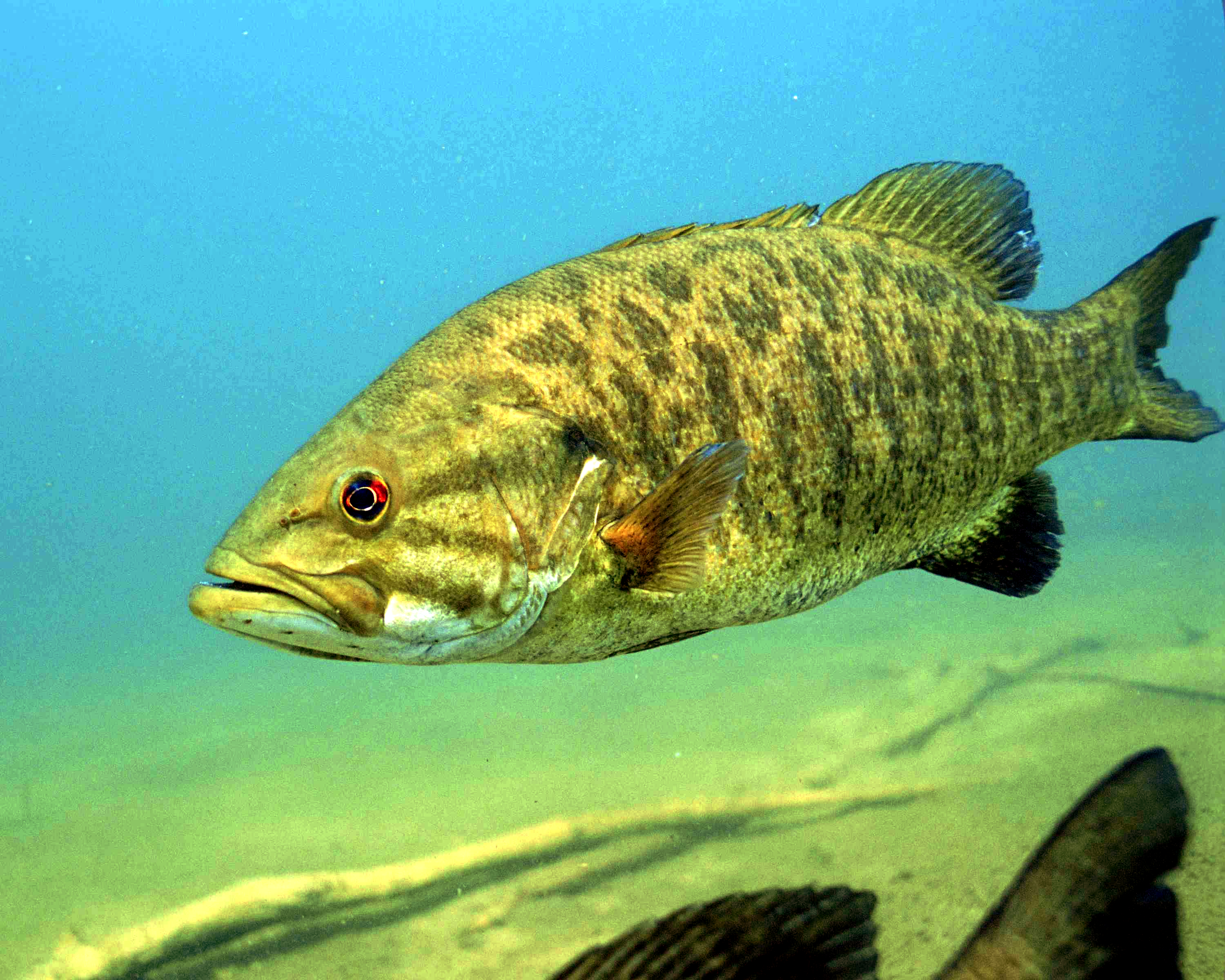 Image title: Detailed underwater photo of smallmouth bass fish micropterus dolomieu Image from Public domain images website